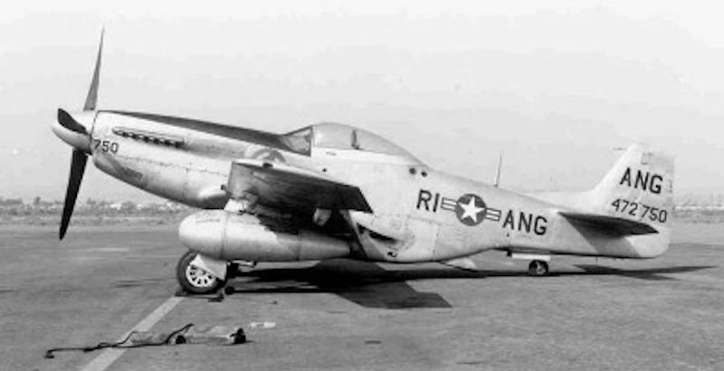 152d Fighter Squadron - North American F-51D-25-NA Mustang 44-72750